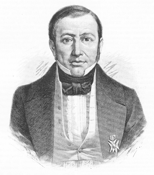 José Mariano Epifanio Paredes y Arrillaga, President of Mexico, 1846